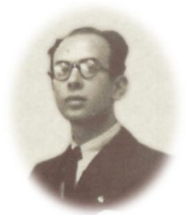 Ignazio Drago in 1930's